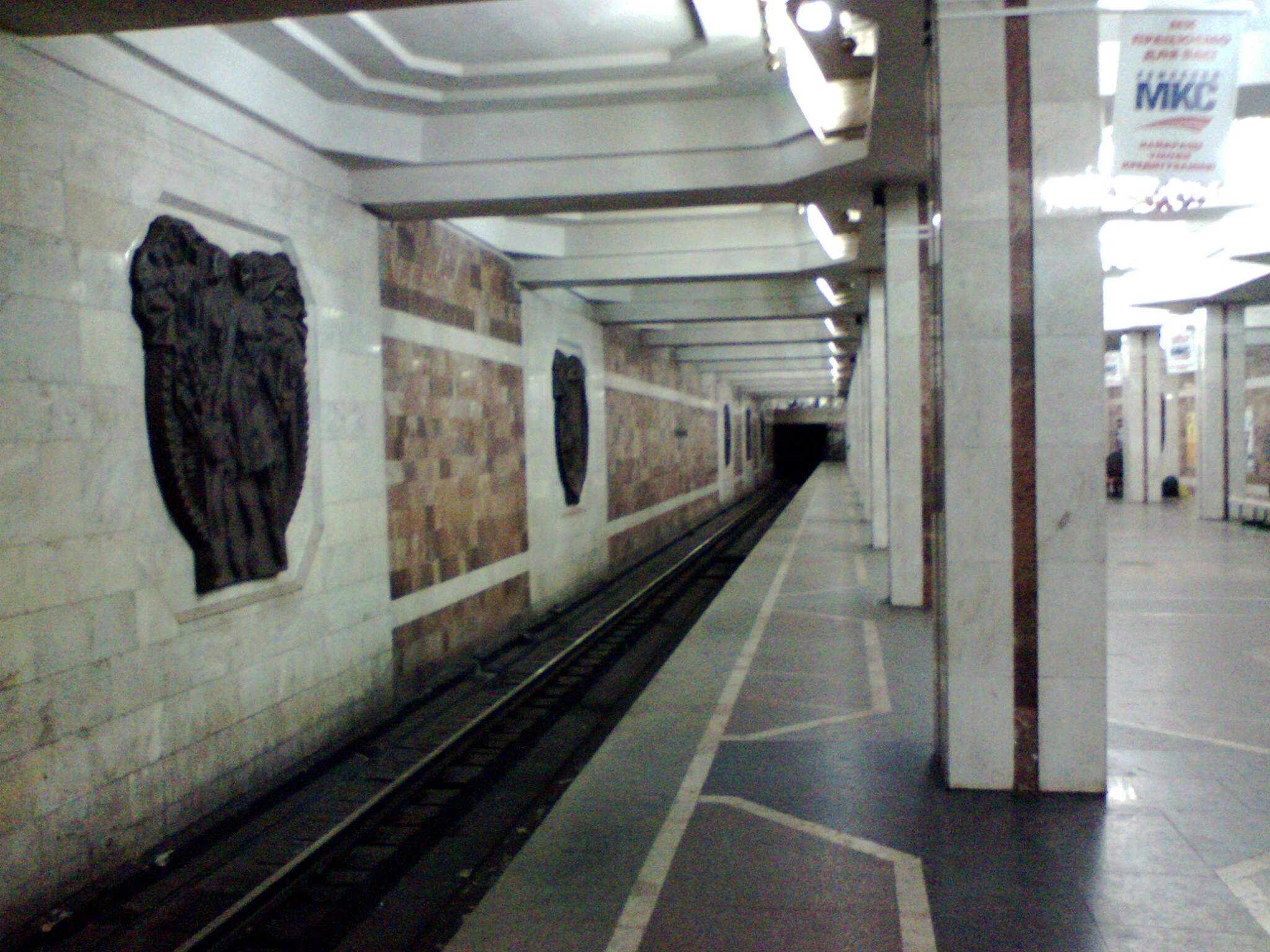 Landing platform and tapestry on the station Geroev Truda, Kharkiv.